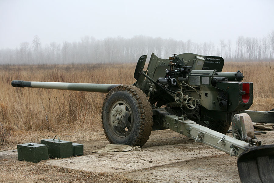 1000th Training Center of Rocket and Artillery Troops. 100 mm anti-tank gun MT-12